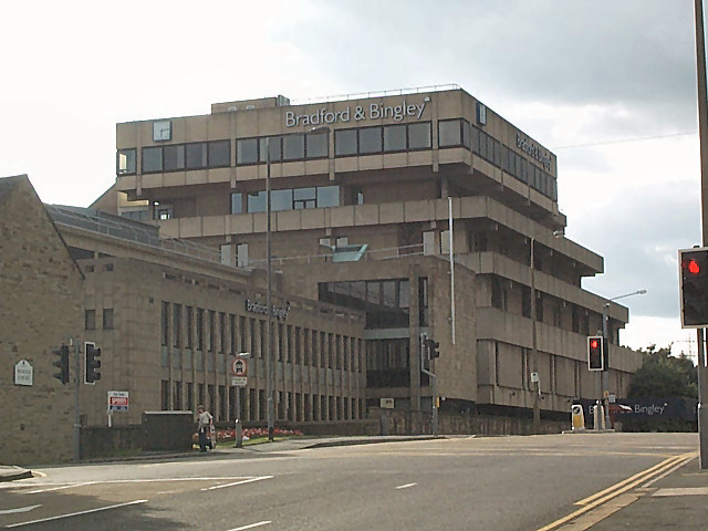 Bradford & Bingley headquarters